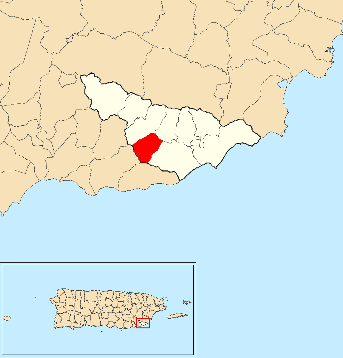 Palo Seco, Maunabo, Puerto Rico locator map.png